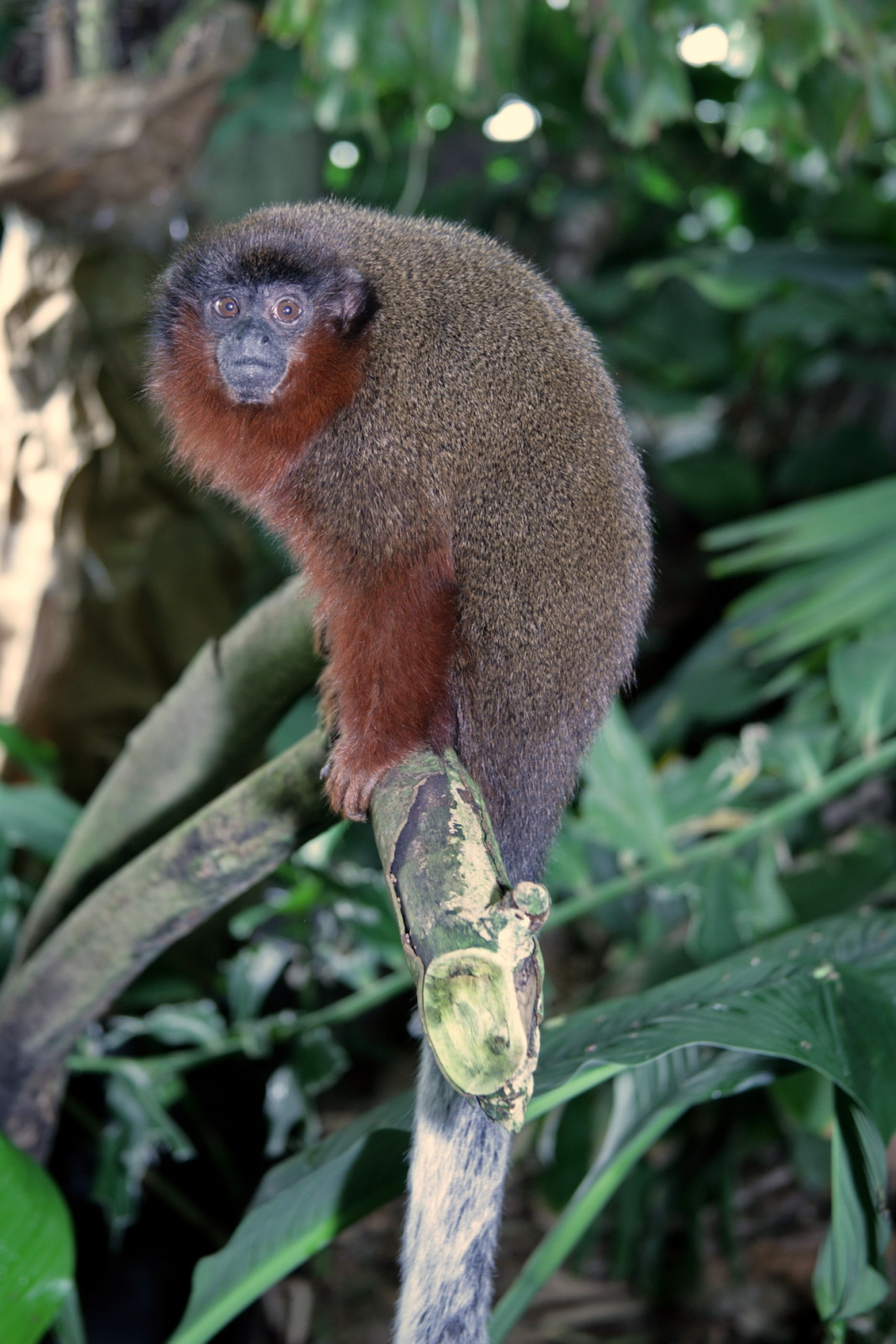 Dusky Titi Monkey (Callicebus brunneus) in National Zoo